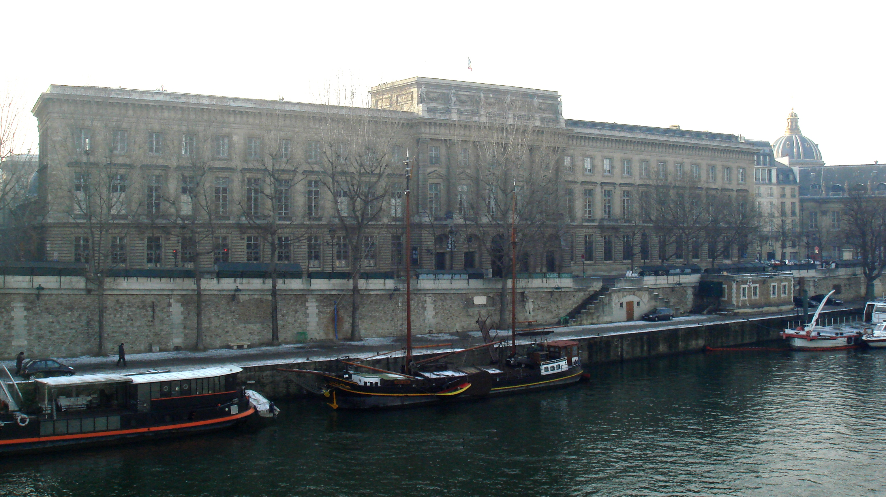 Monnaie_de_Paris_facade